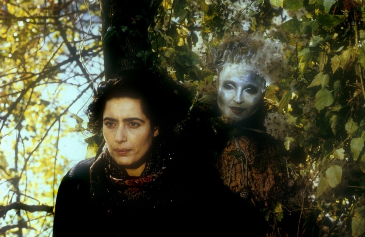 Photo of Ophrah Shemesh and Hanna Schygulla in Amos Gitai's "Golem, l'esprit de l'exil", 1992